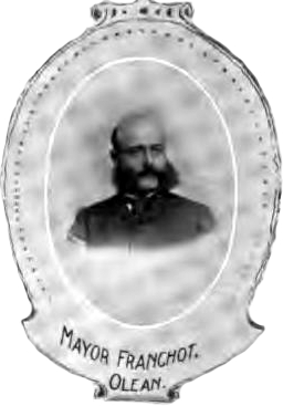 Portrait of NIcholas V. V. Franchot, Mayor of Olean, New York